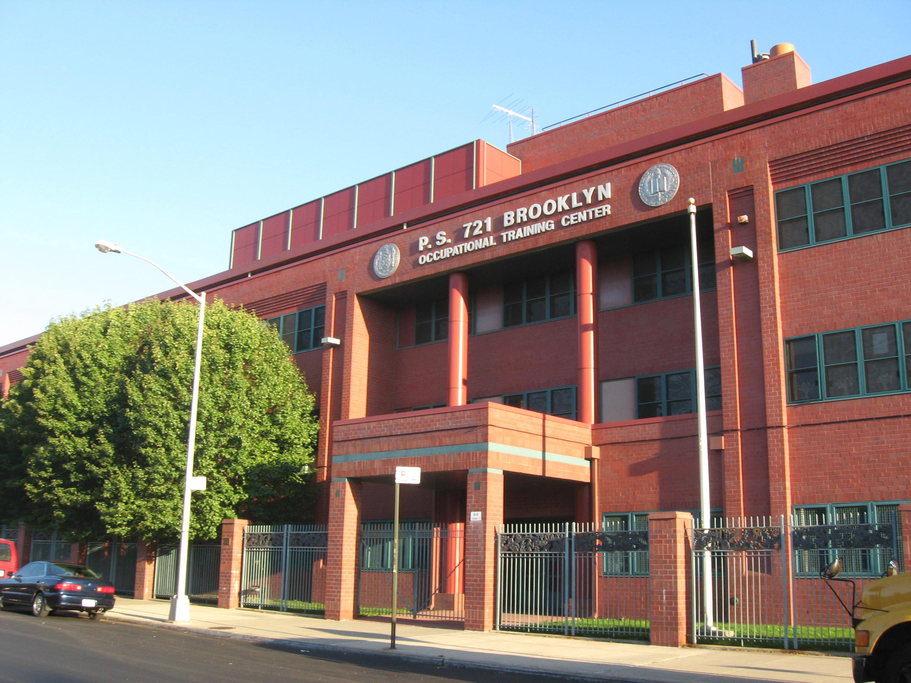 Looking southeast at Special education PS 721 in Gravesend, Brooklyn on a sunny late afternoon